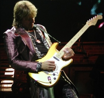 Richie Sambora performing in 2001.